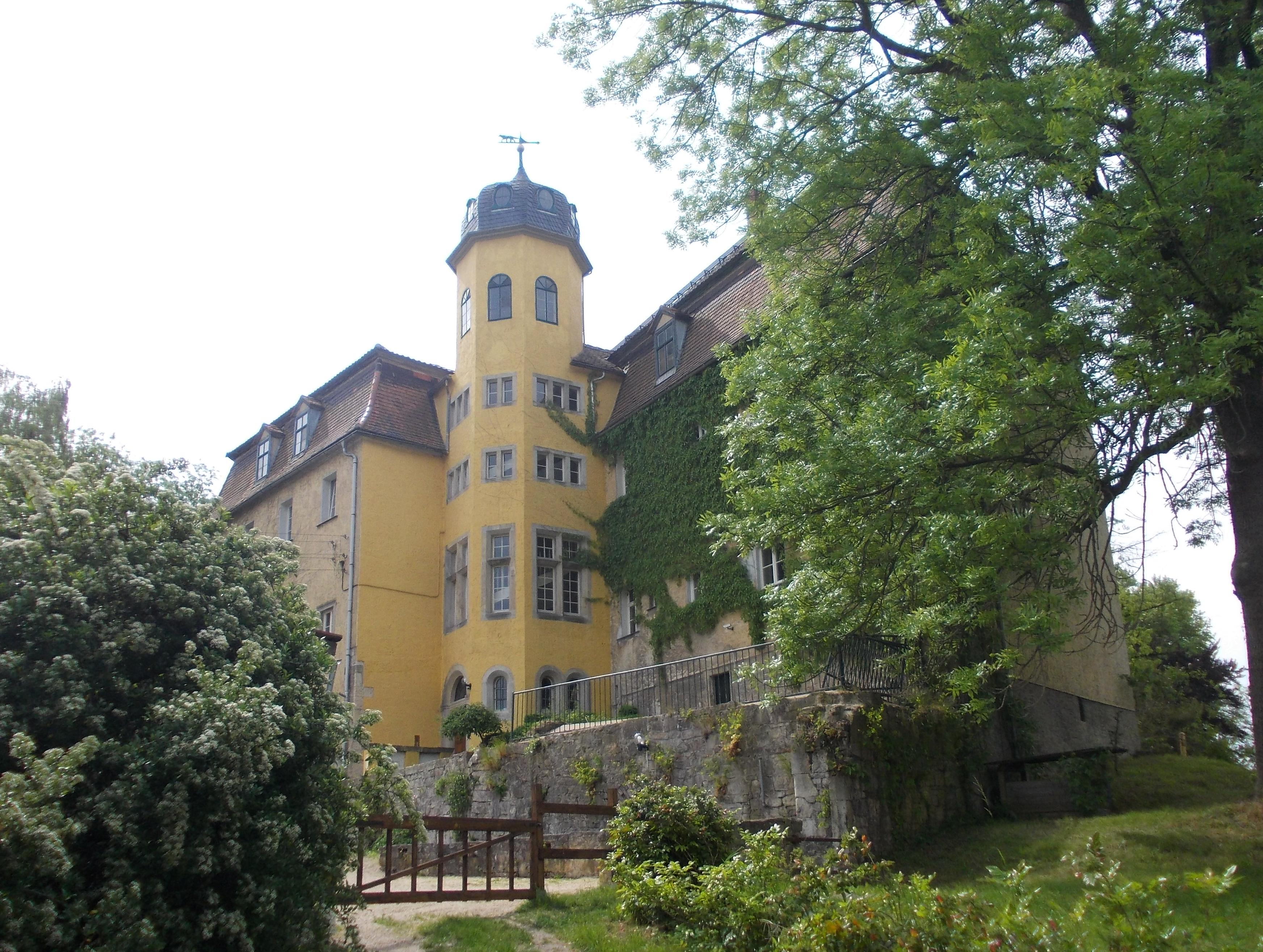 Tümpling Castle (Dornburg-Camburg, Saale-Holzland-Kreis, Thuringia)